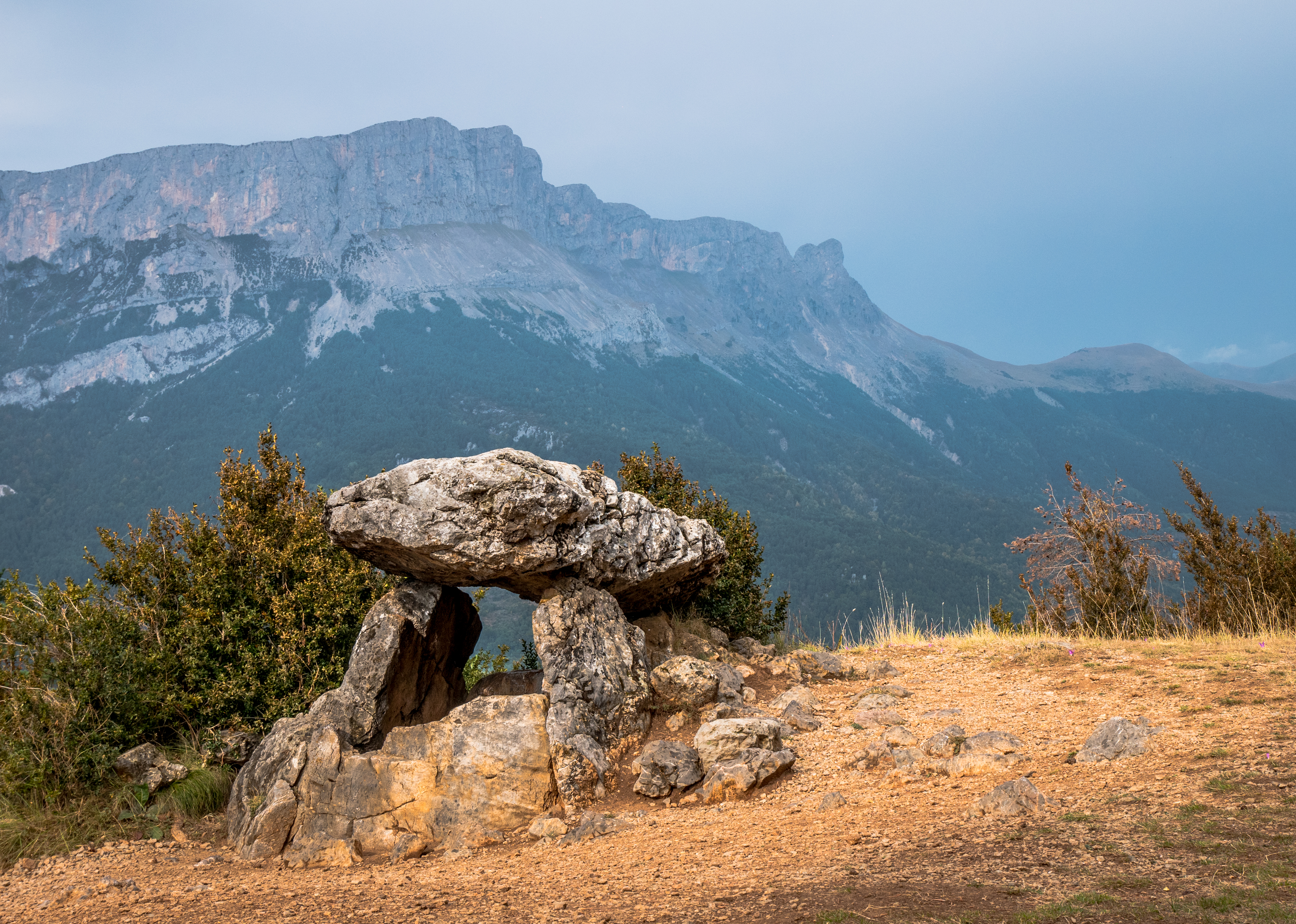 Dolmen of Tella. Sobrarbe, Aragón, Spain